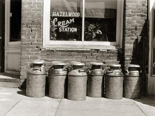 Cans of cream in front of the Hazelwood Cream Station in Genesee, Idaho, United States.